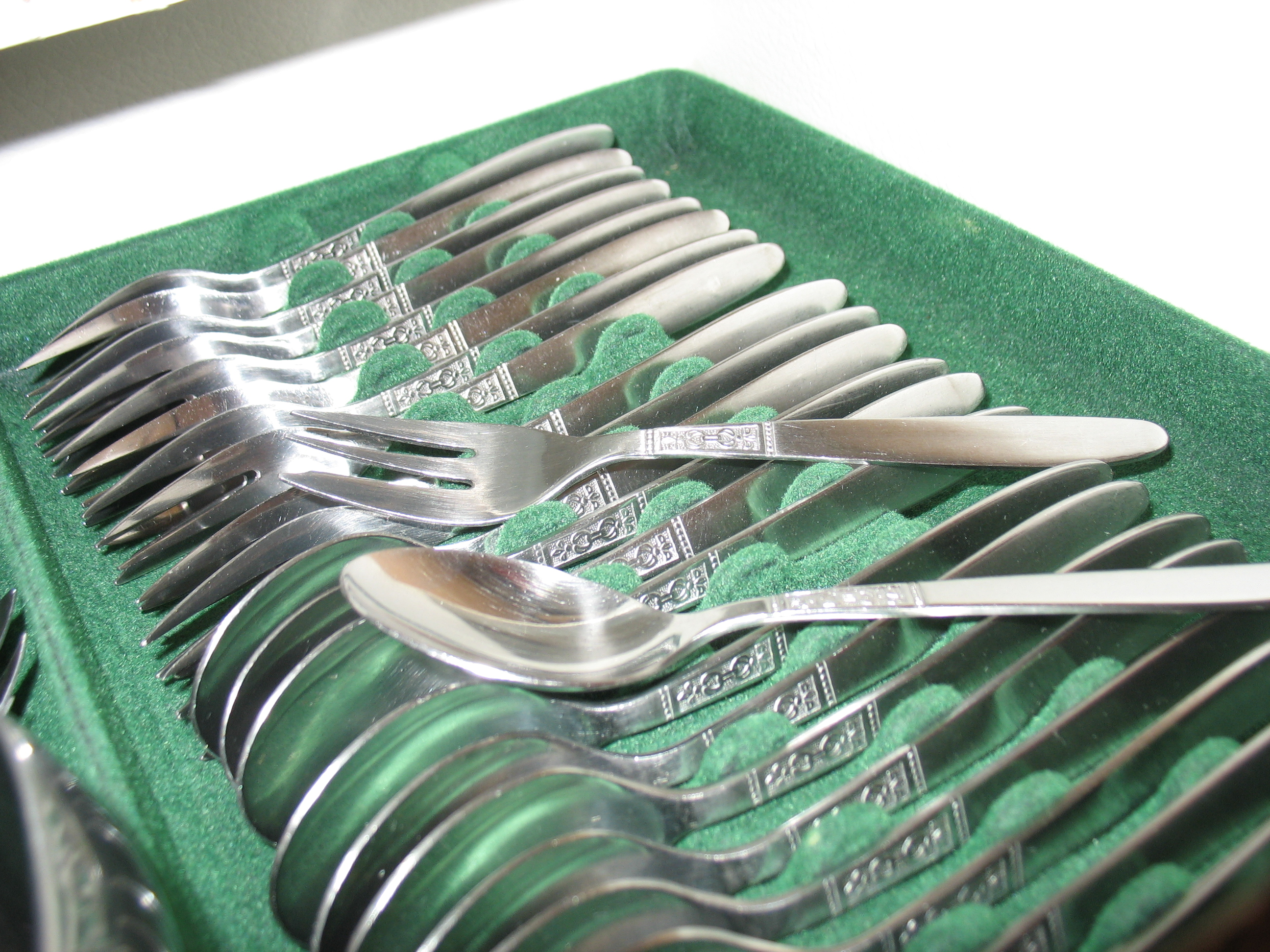 A spoon and a fork for dessert.